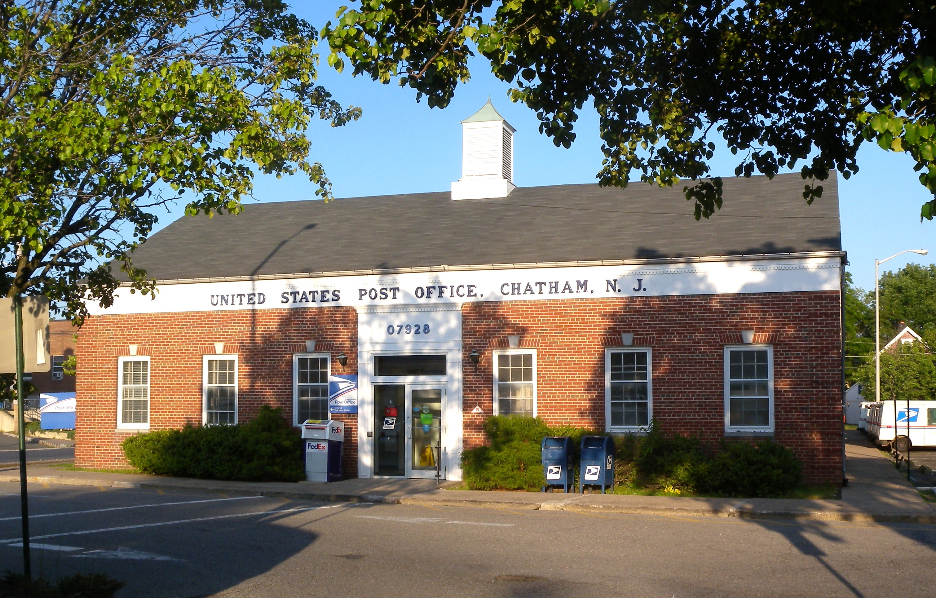 Looking east across the street at Chatham, New Jersey Post Office, ZIP 07928, late on a mostly sunny afternoon. See also File:Chatham USPS jeh.JPG.